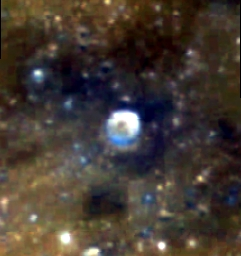 Clementine image of Huxley crater